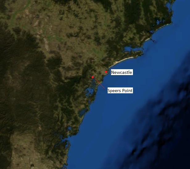 Shows location of Speers Point on a NASA Worldwind map in relation to Newcastle, New South Wales.